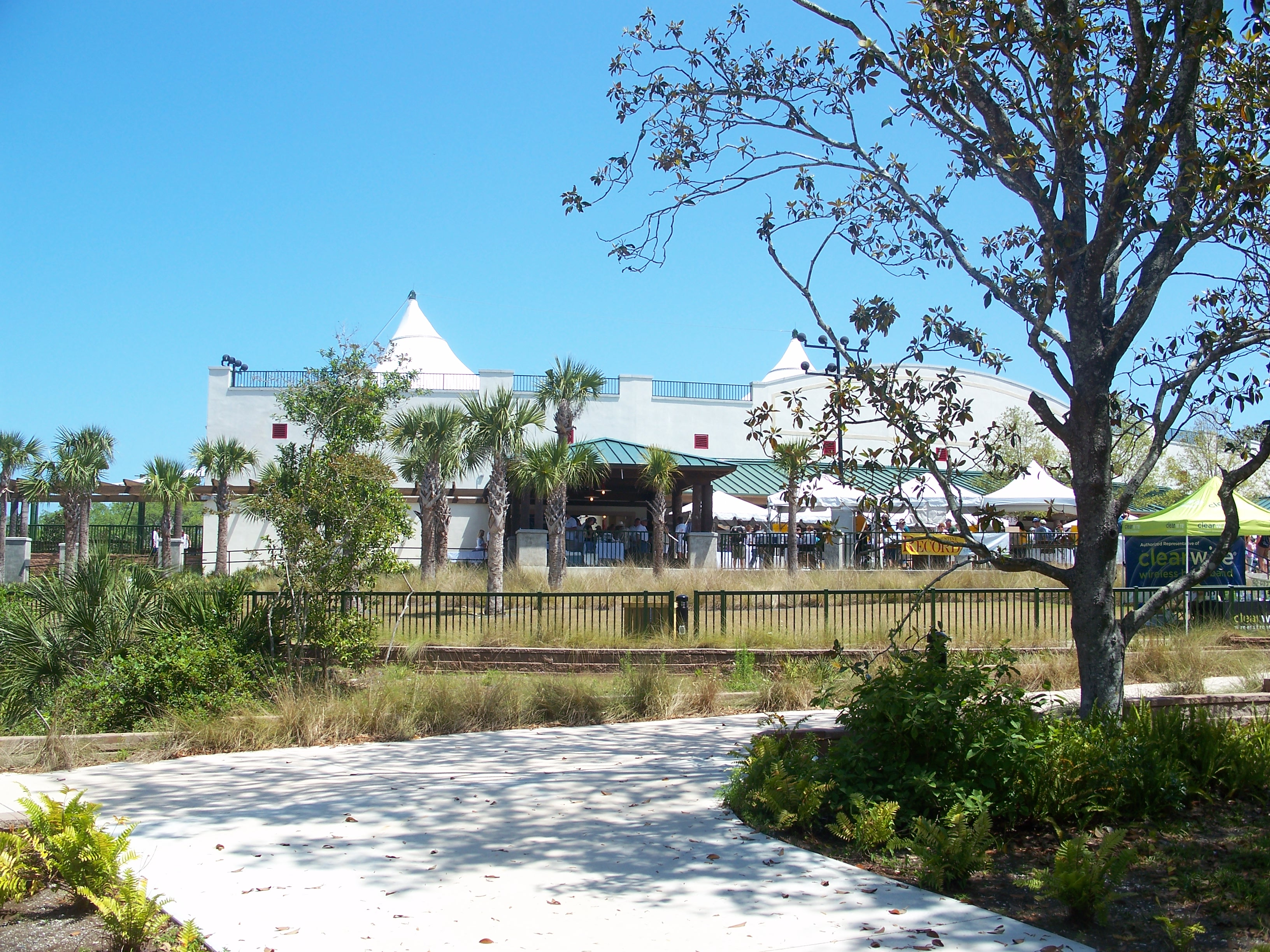 St. Augustine, Florida: St. Augustine Amphitheatre.